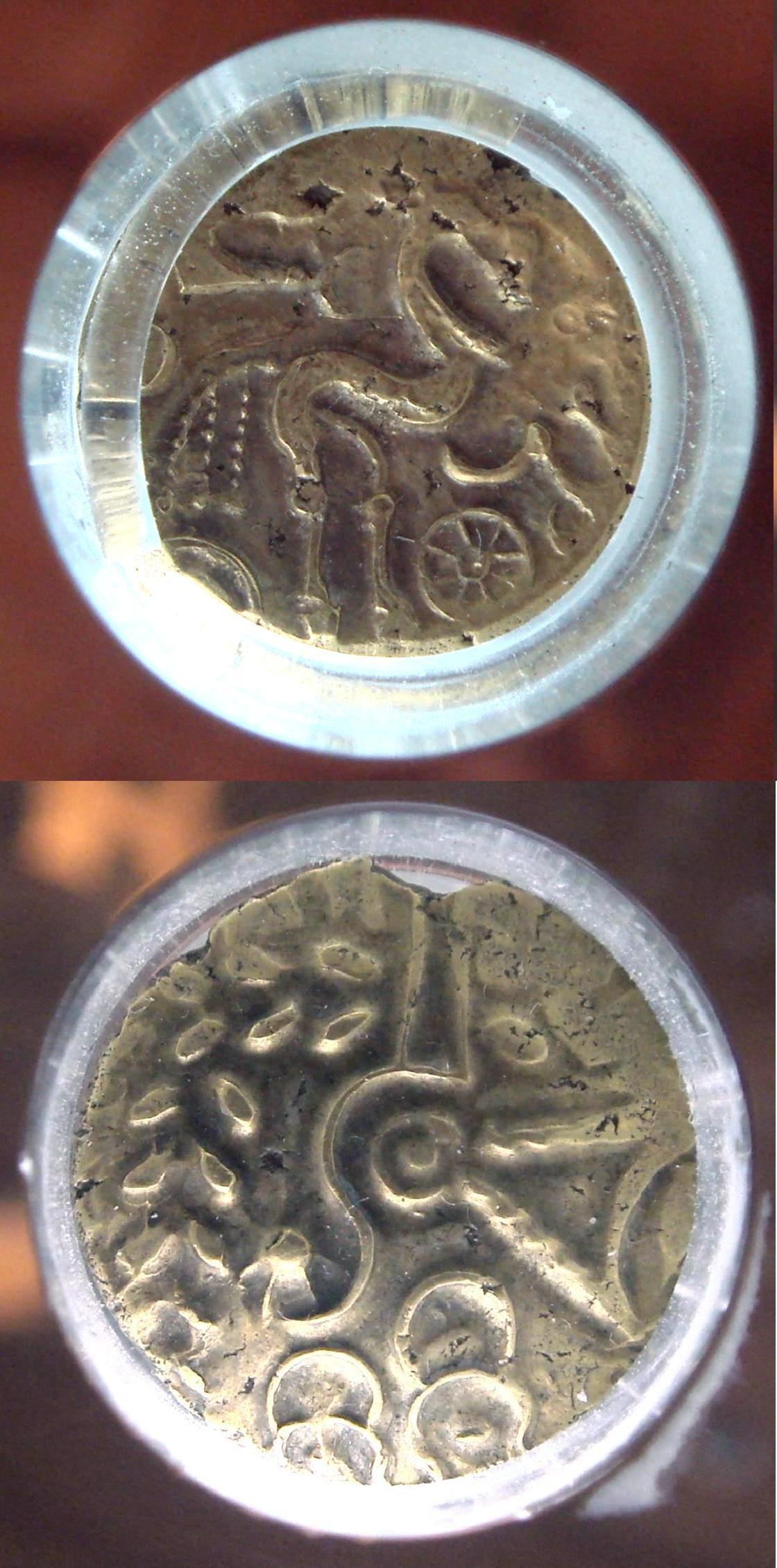 Coin of the Remi